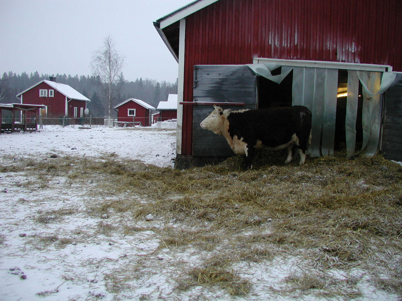 The farm of Haltiala located in Tuomarinkylä, Helsinki, Finland, and owned by the city of Helsinki, in wintertime